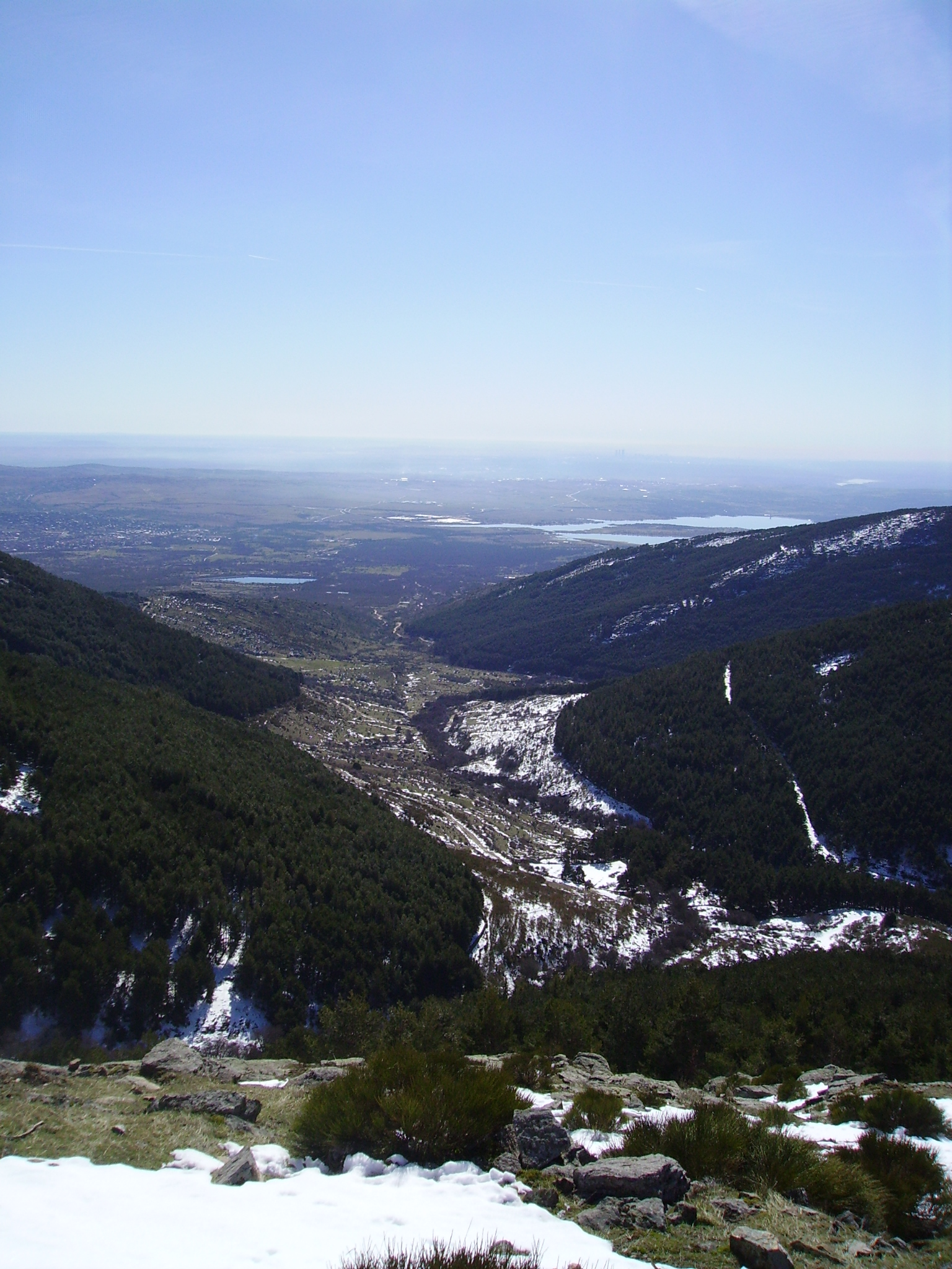 View of the Hueco de San Blas from La Najarra, Sierra de Gudarrama (Madrid)